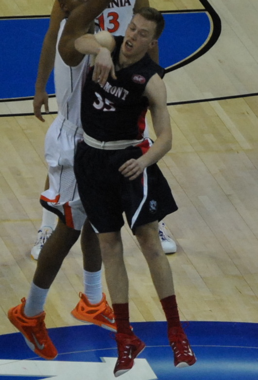 NCAA Referee Mark Whitehead tosses the ball to start the NCAA Tournament Game betweek UVA and Belmont in Charlotte